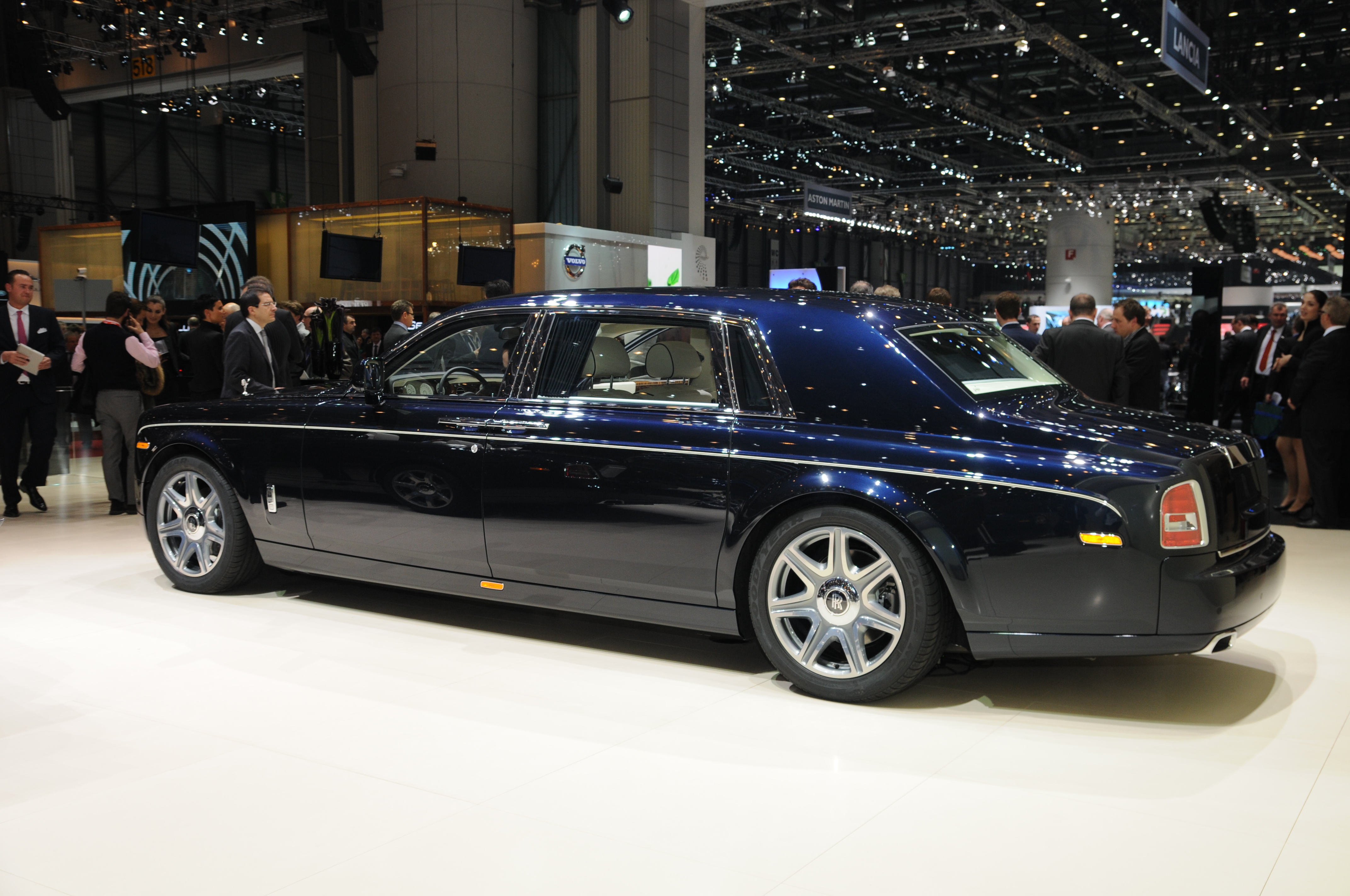 Geneva Motor Show 2013 (photos taken on the first press day)